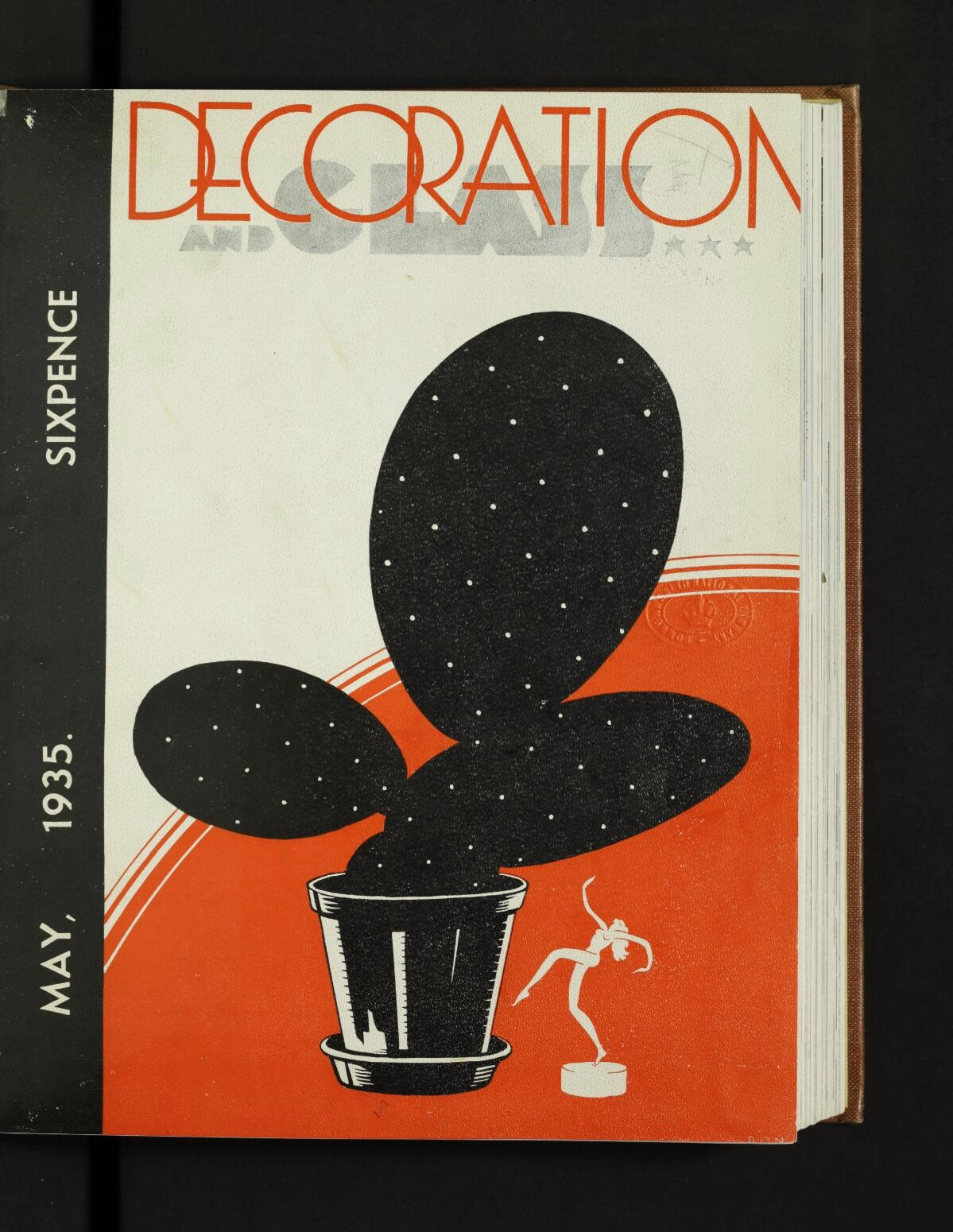 Title page of Decoration and Glass journal, Vol. 1 No. 1 ( 1 May 1935)